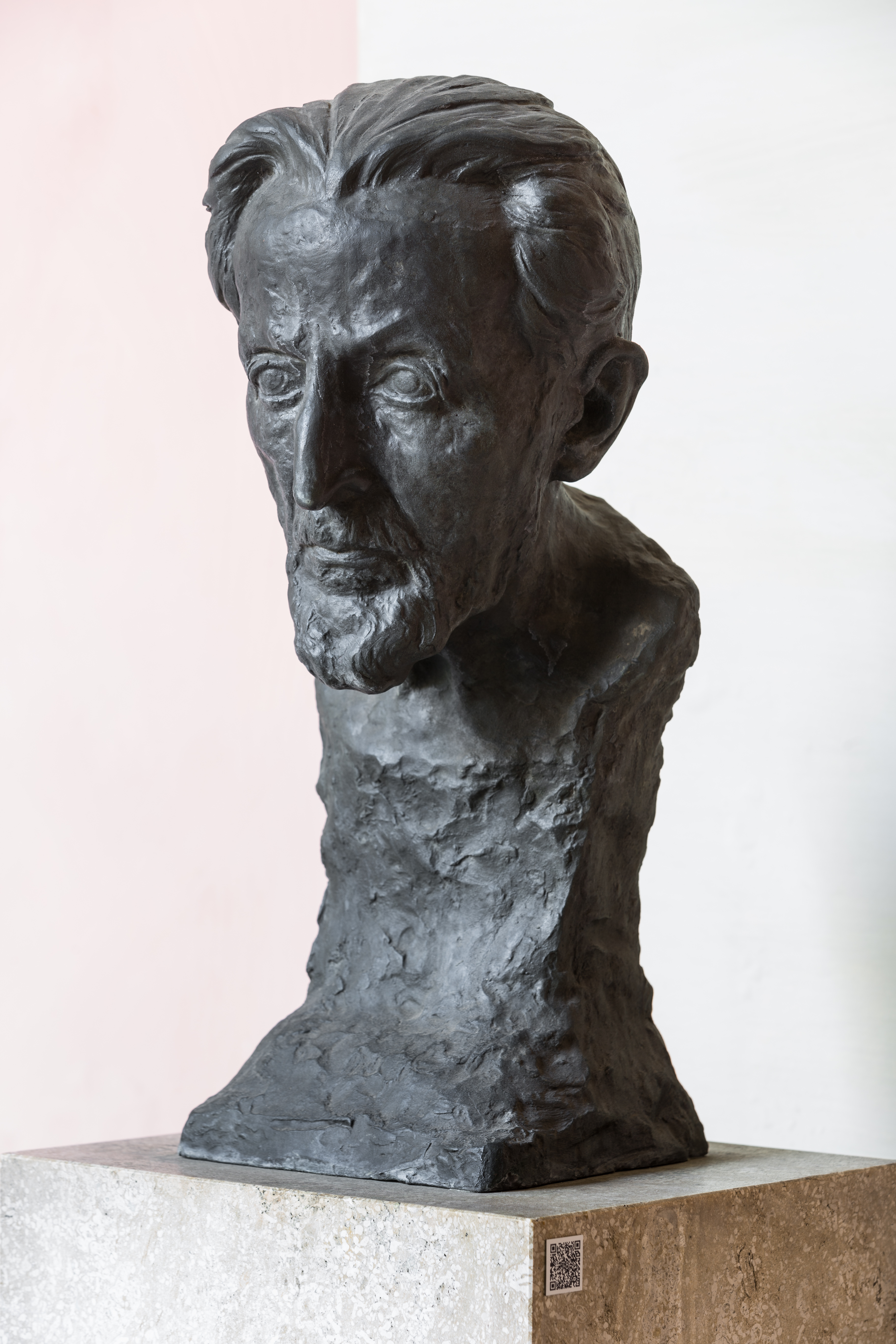 Hans Horst Meyer (1853-1939), bust (dark bronze) in the Arkadenhof of the University of Vienna, (Maisel# 78). Artist: Grete Hartmann, unveiled 1953